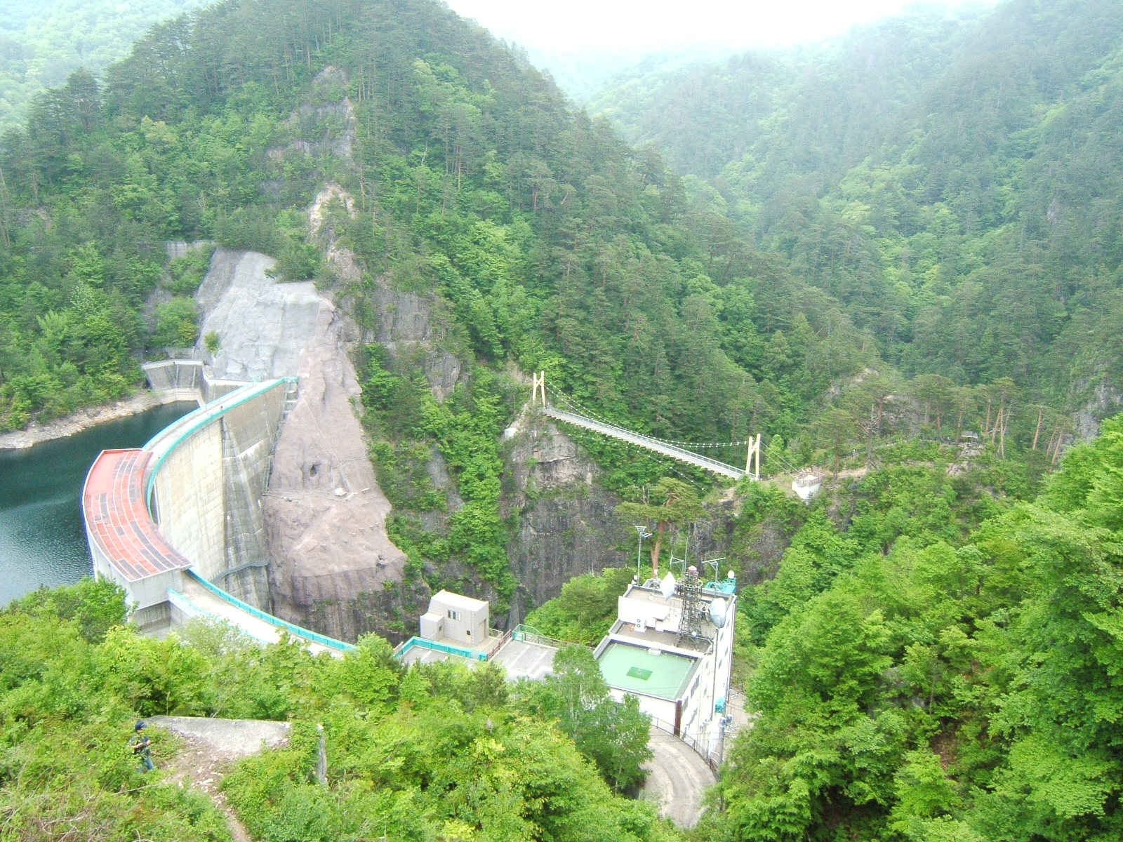 Lake Kawamatako, Kawamata Dam, Setoaikyou Valley, and "Setoaikyou-watarassyai Bridge". Nikko, Tochigi, Japan.